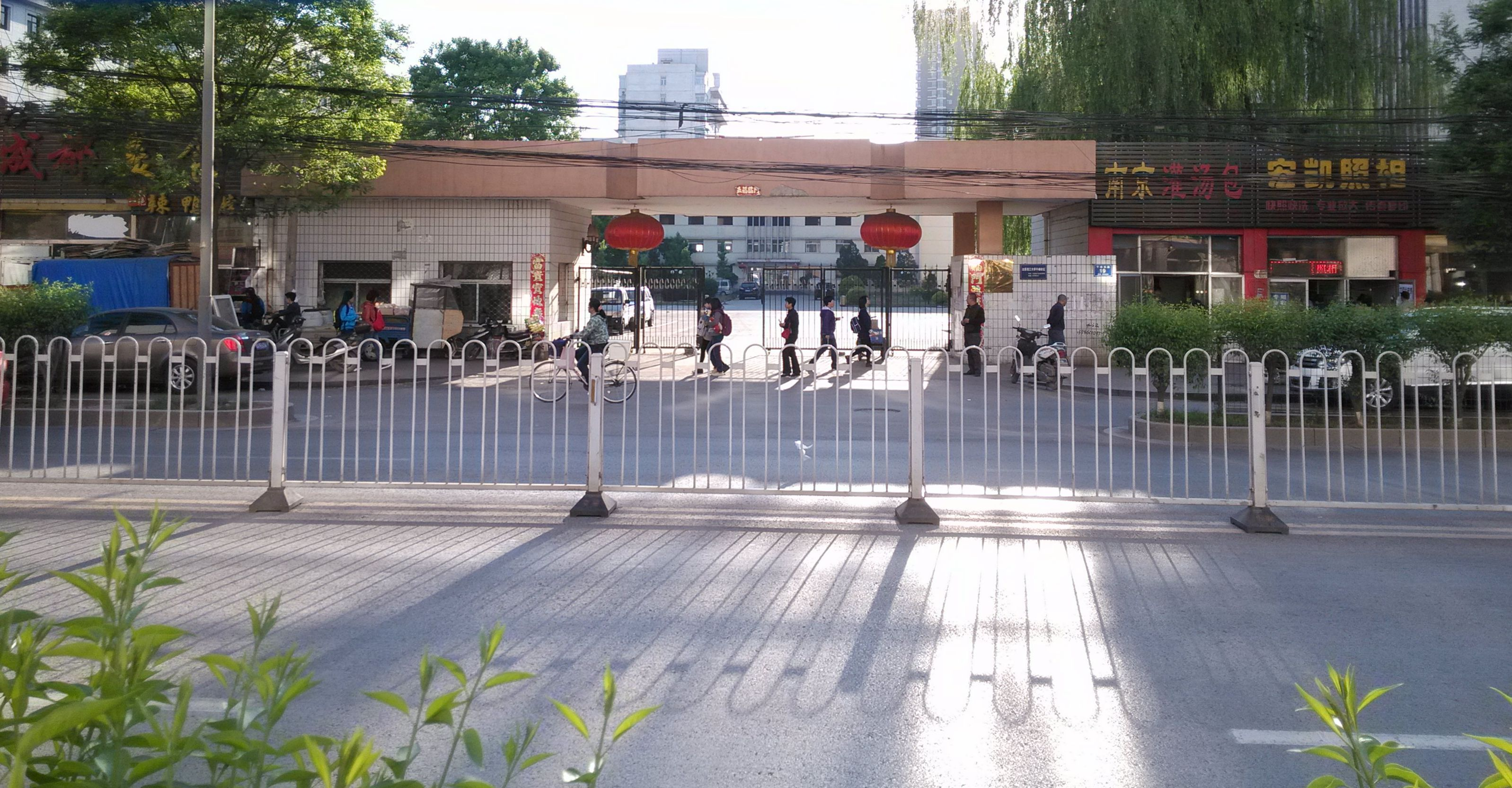 Taiyuan University of Technology Qianfeng Campus.